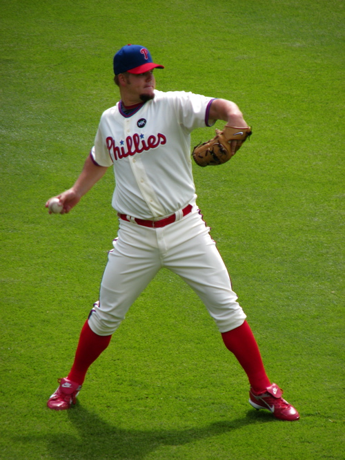 Description Phillies pitcher Joe Blanton warming up before a game. May 9, 2009. Date10 May 2009, 12:18 (UTC)SourceI created this work entirely by myself. Photo taken by Michael Parker. OriginalAuthorMikeParker (talk) 12:18, 10 May 2009 . . MikeParker . . 500×666 (197 KB) Phillies pitcher Joe Blanton warming up before a game. May 9, 2009.